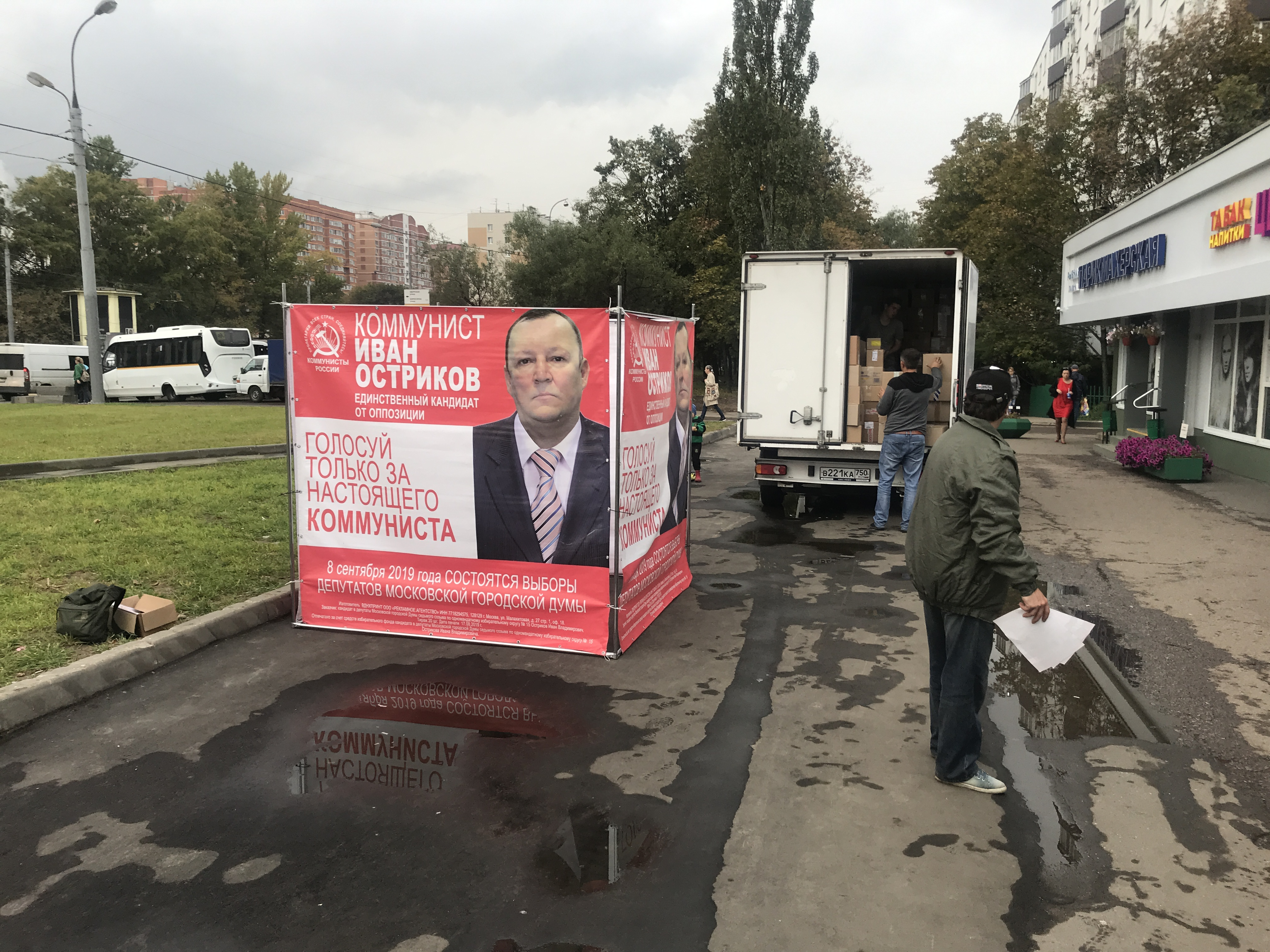 Single-member constituency No. 15 at the election of deputies to the Moscow City Duma of the 7th convocation